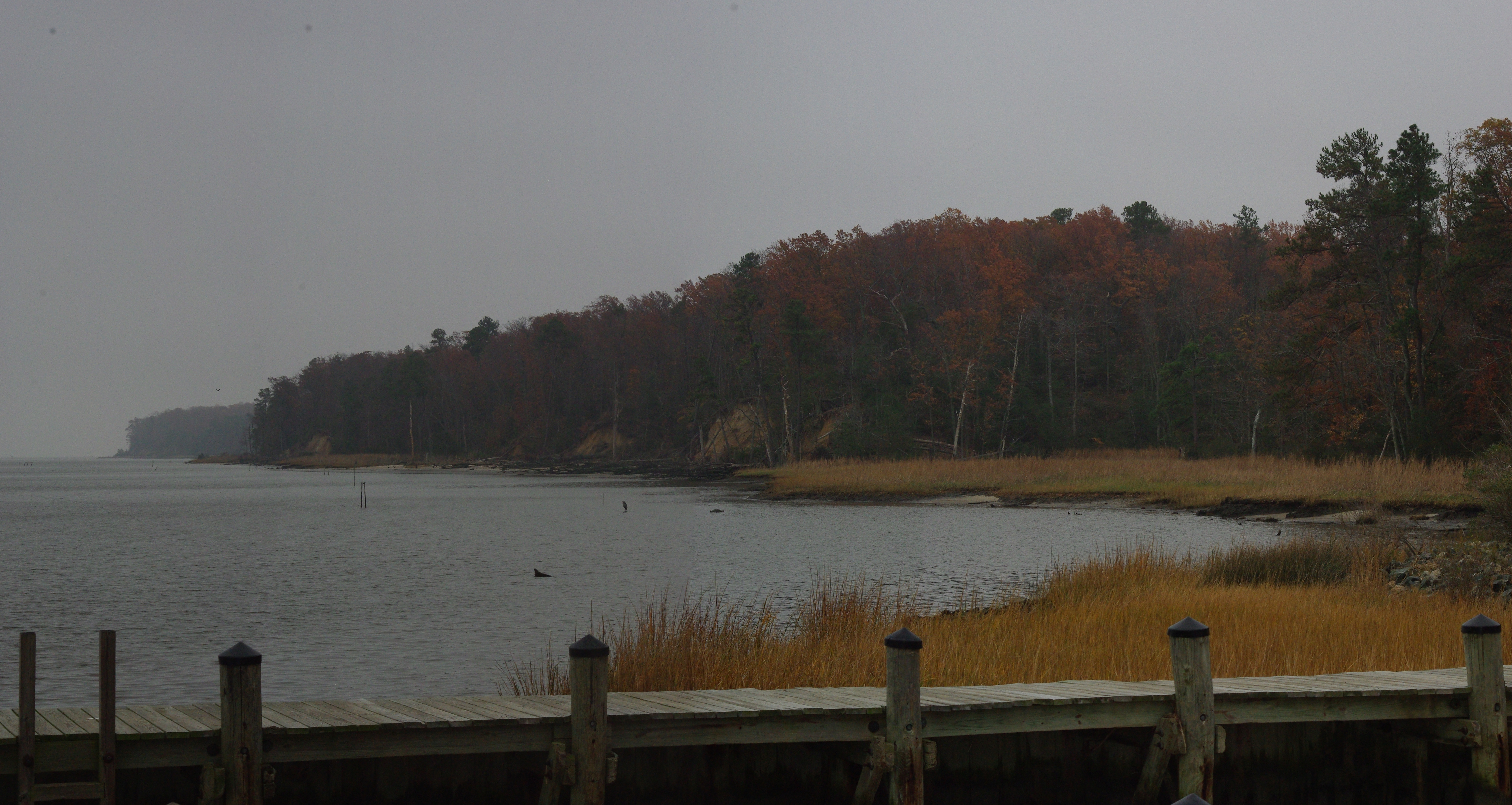 A Cloudy Croaker Landing Panorama